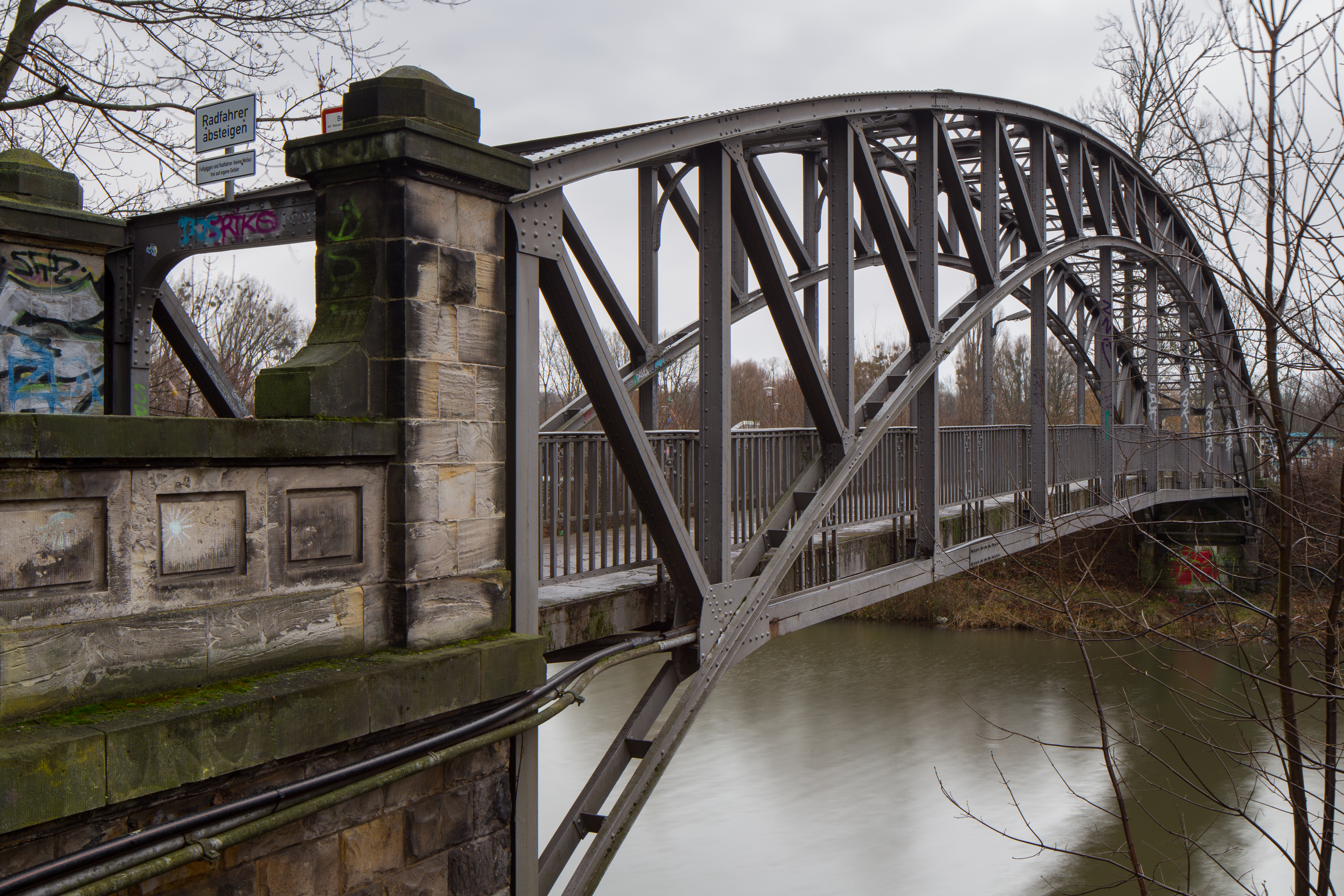 Pedestrian bridge crossing the Leine canal in Limmer district of Hannover, Germany.